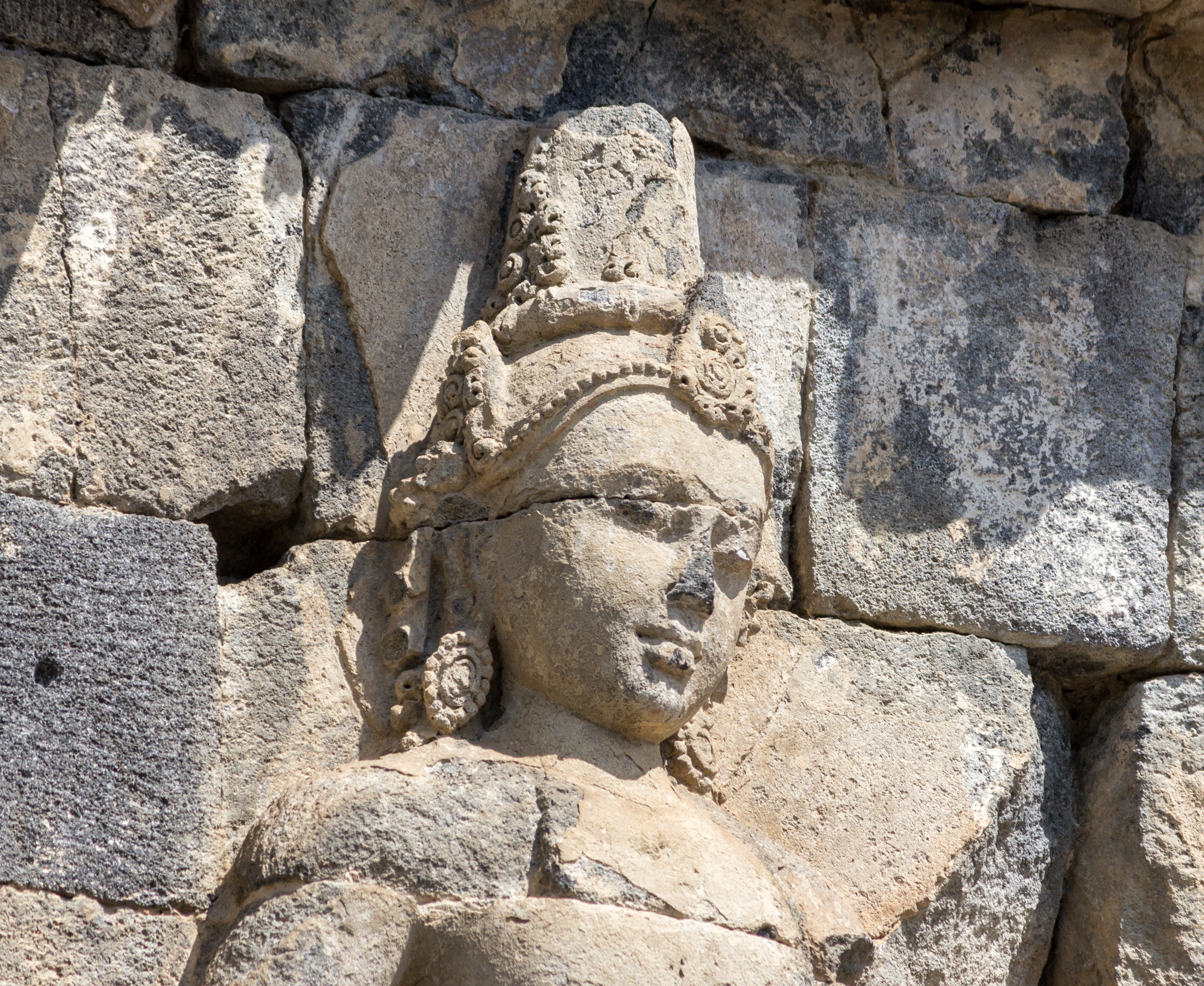 Relief on Sari Temple wall, 2014-04-10